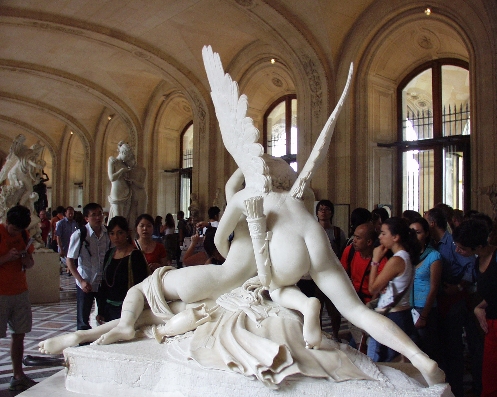 This is the statue "Amore e Psiche" by Antonio Canova exibited in the Louvre museum of Paris